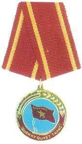 Vietnam Determined to Win Military Flag Medal